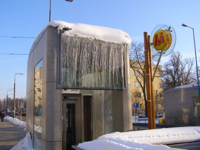 Entrance to the Plac Wilsona tube station in Warsaw, Poland in winter